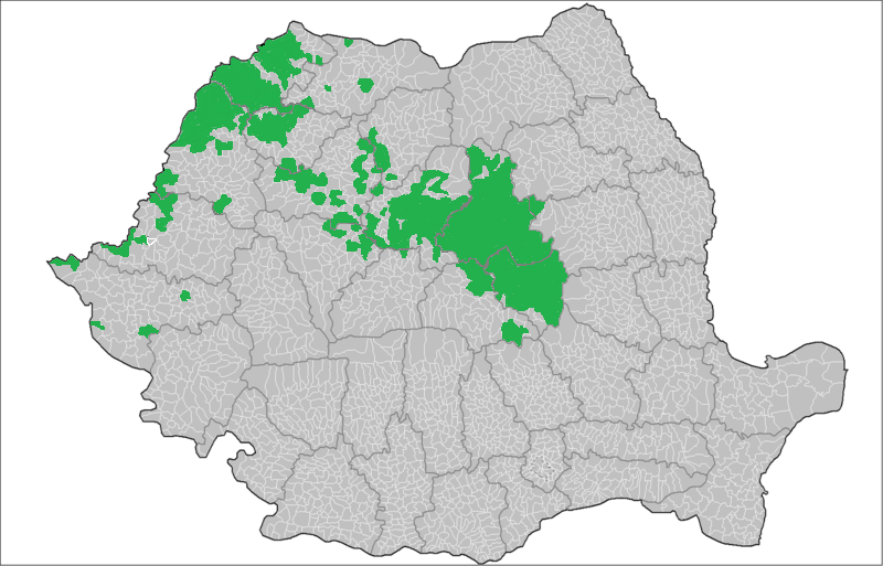 Romanian communes and towns, where the Hungarian community trespasses the official 20%, according to the 2011 census.